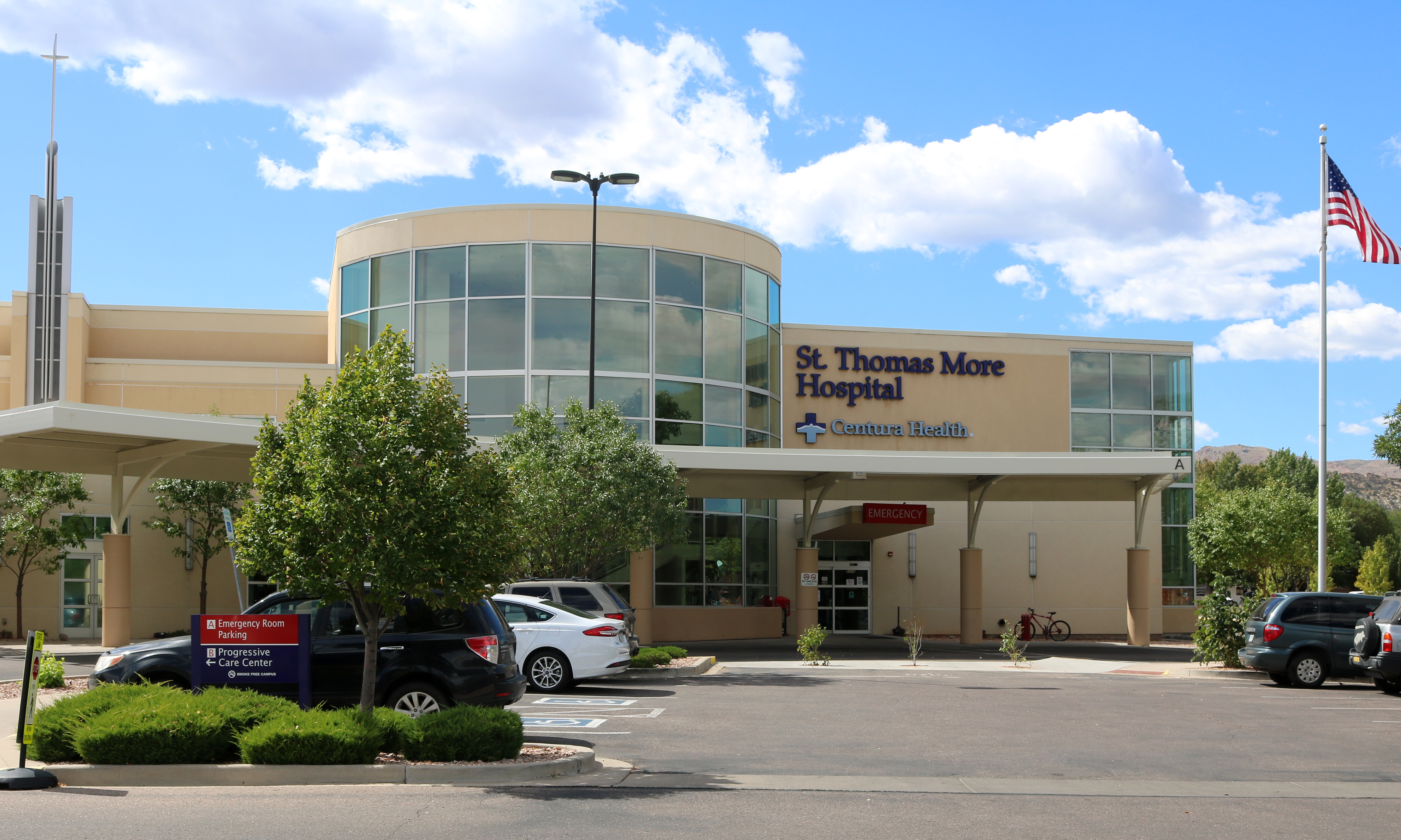 Saint Thomas More Hospital, located at 1338 Phay Avenue in Cañon City, Colorado 81212.